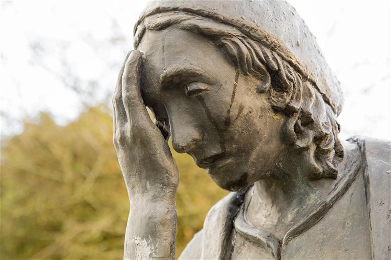 Statue found at Reilig an tSléibhe